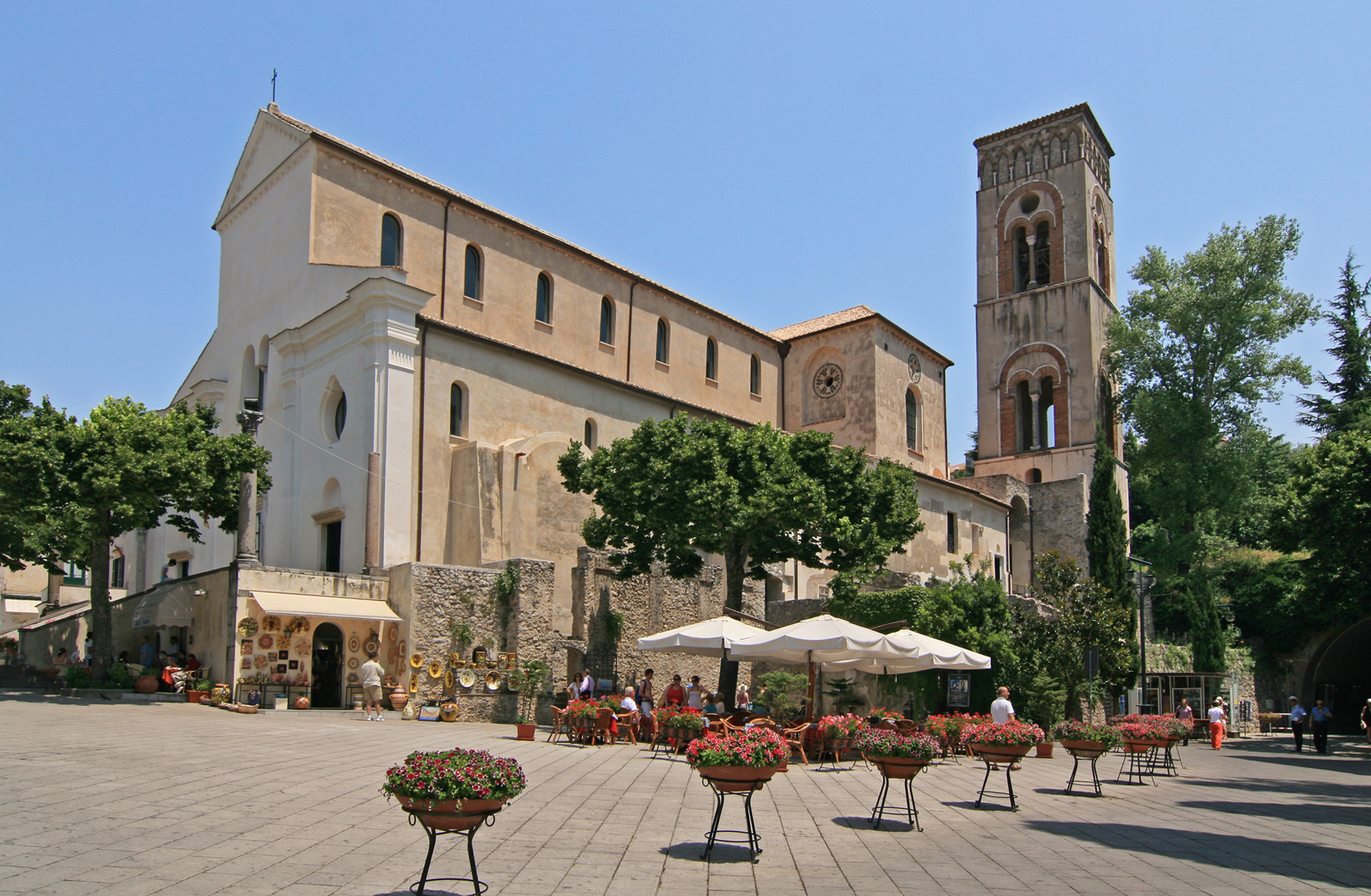 Cathedral of Ravello, Italy.